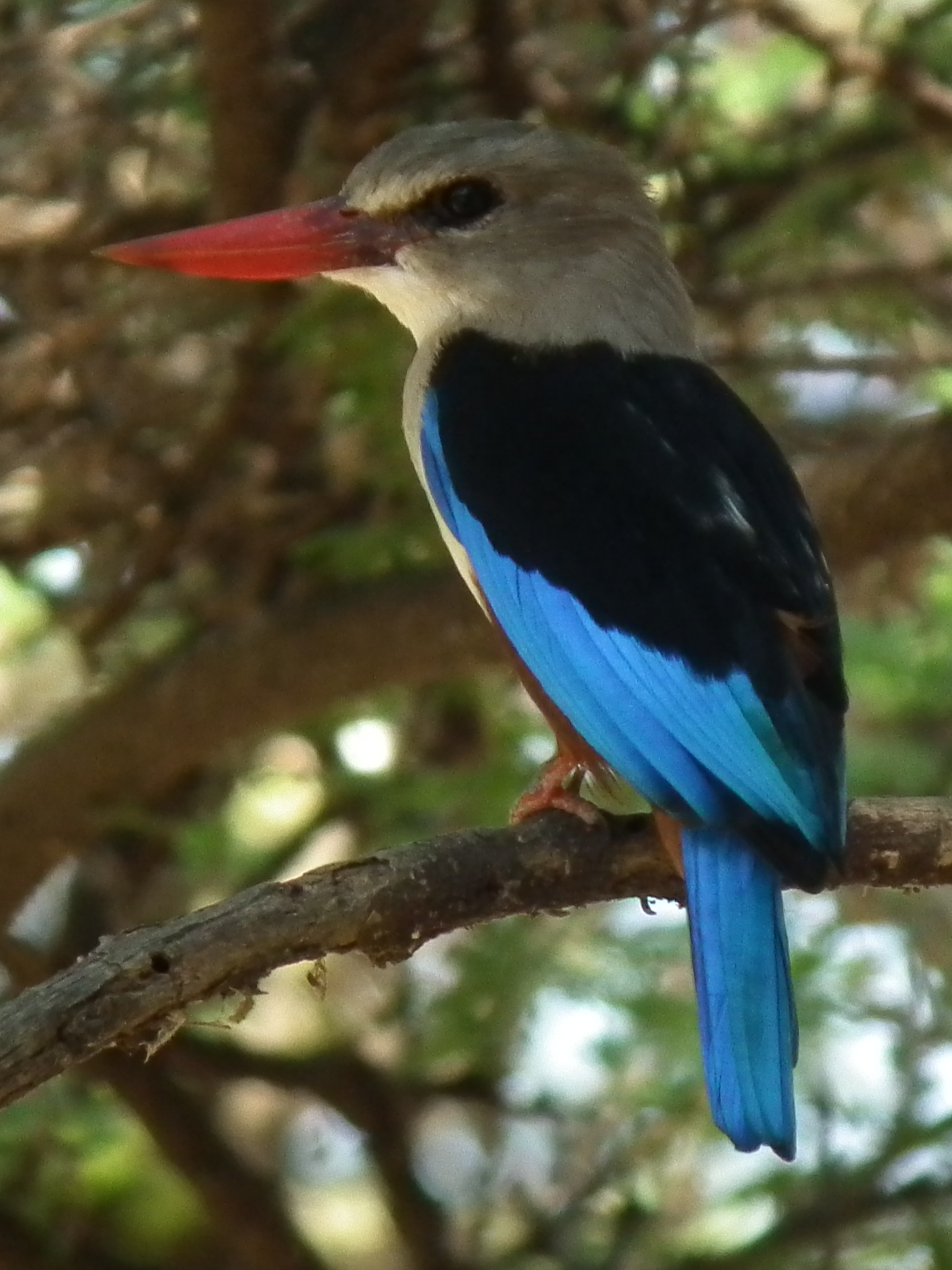 Grey-headed Kingfisher (Halcyon leucocephala), picture taken at, Tanzania